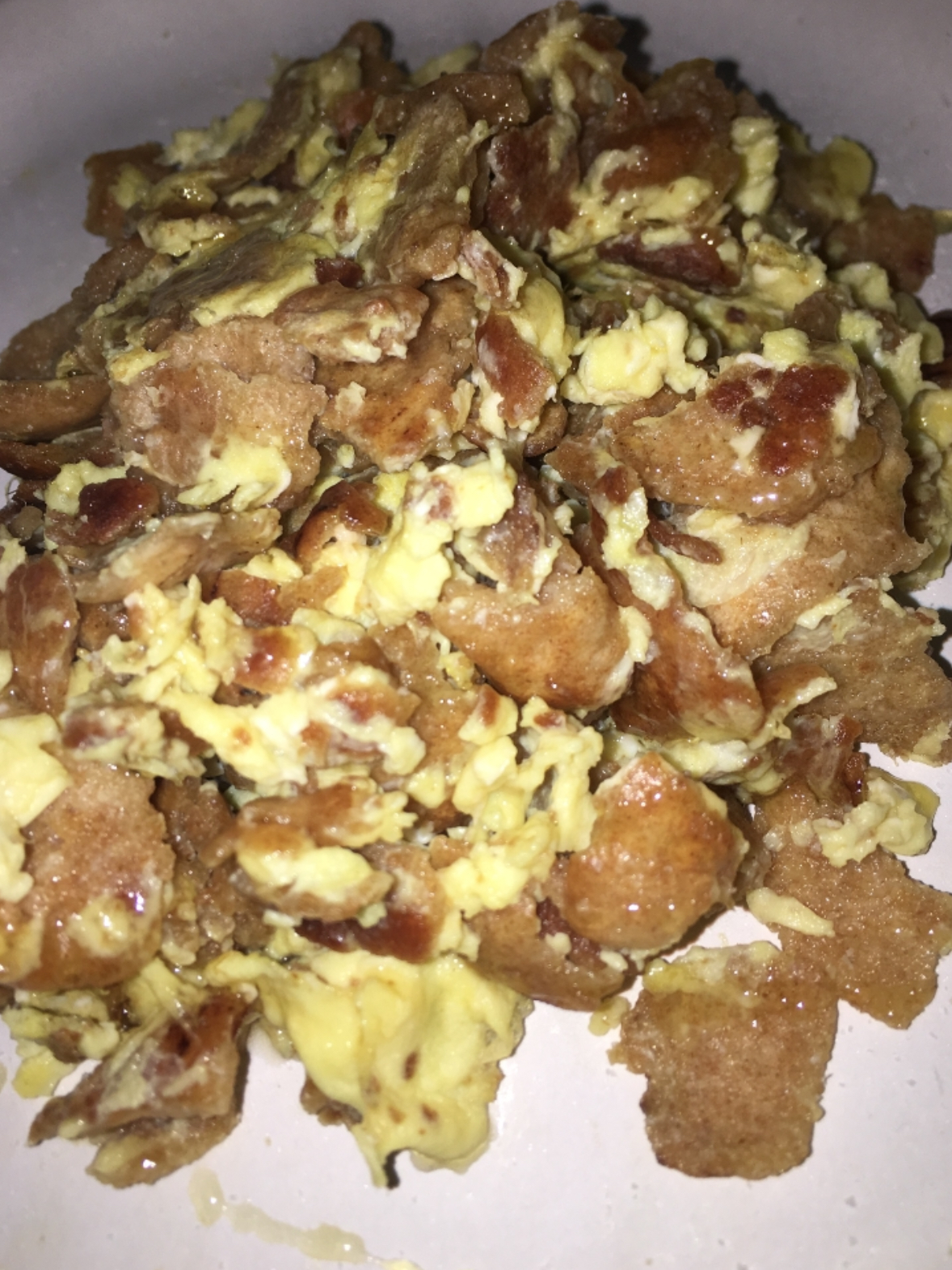 A photo of the Yemenite-Jewish Israeli dish Fatoot Samneh.